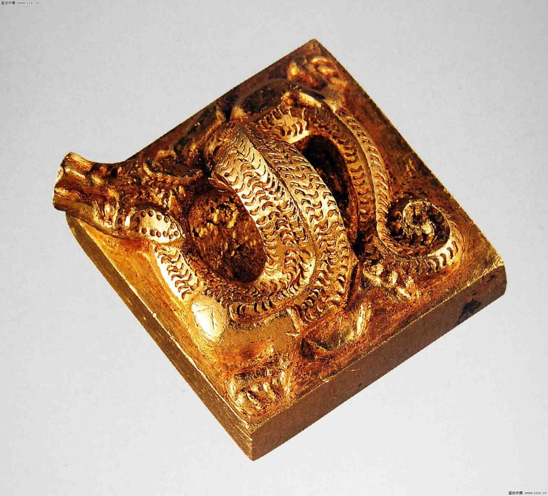 Imperial seal of Emperor Wen of the Nanyue Kingdom